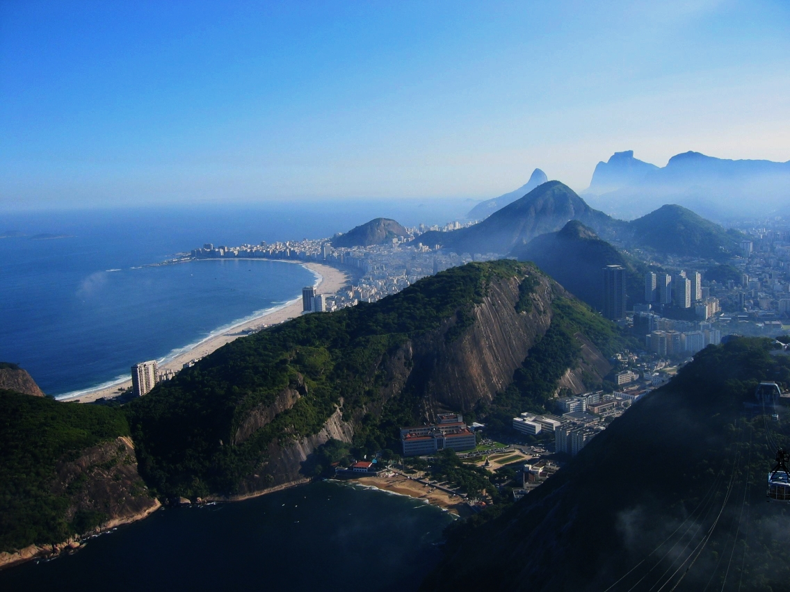 A view of Rio de Janeiro in the direction of Copacabana and Ipanema, from Sugarloaf mountain.